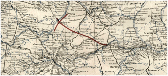 The plan of construction of the Upper Volga Railroad (the rail lines are highlighted in red)